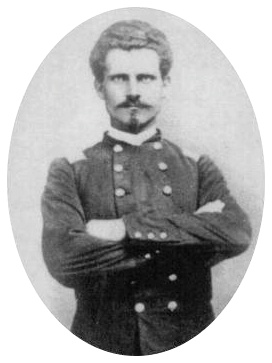 photo of Robert Francis Catterson (1835-1914)